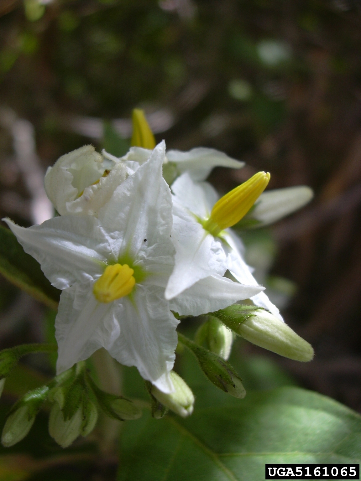 Flowers of Solanum torvum